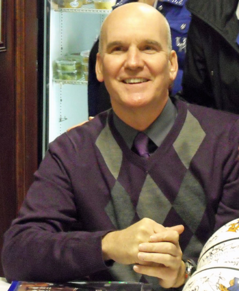 Kyle Macy at an autograph signing in 2013